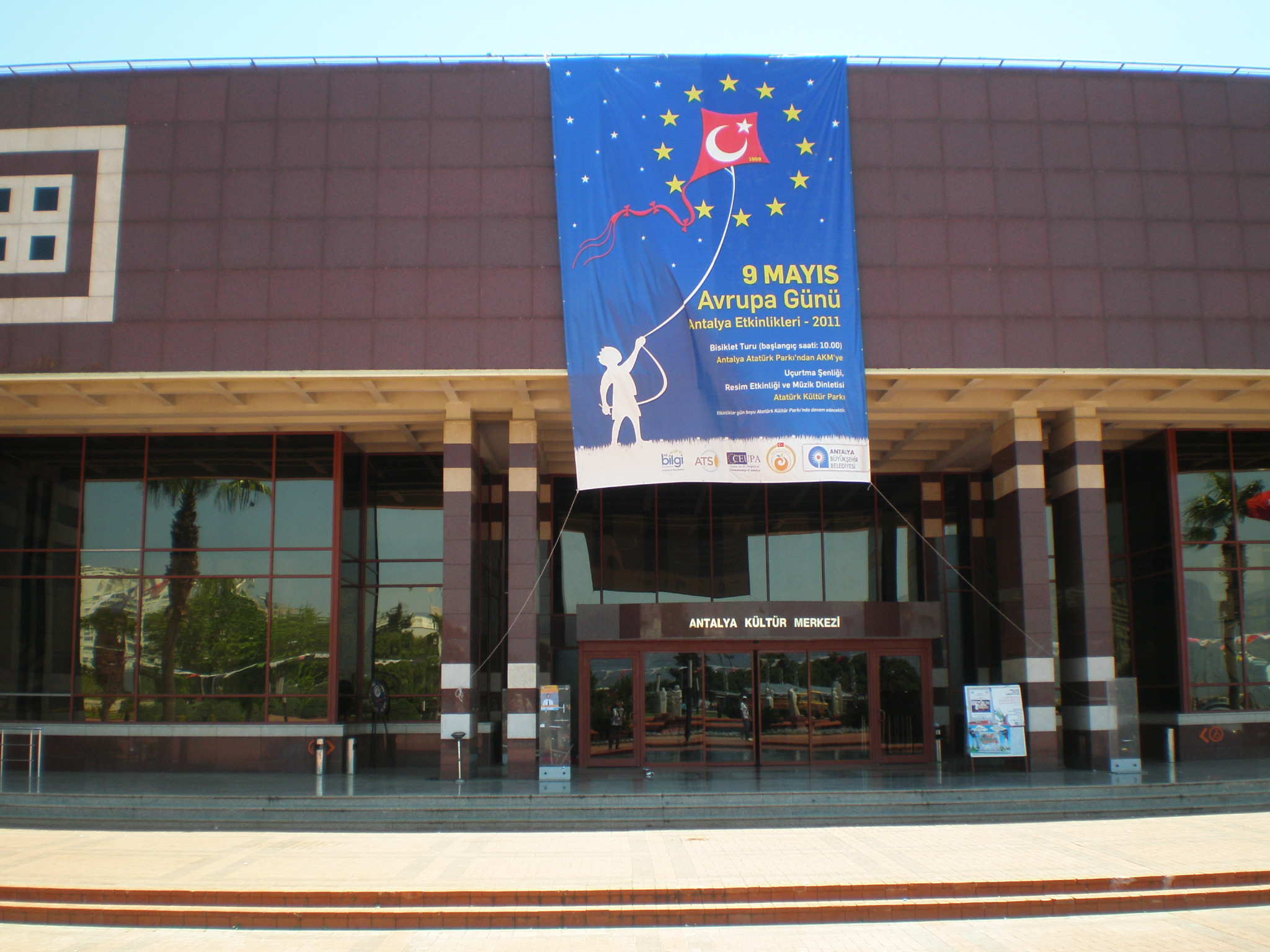 This picture is about that EU day celebration in Antalya.